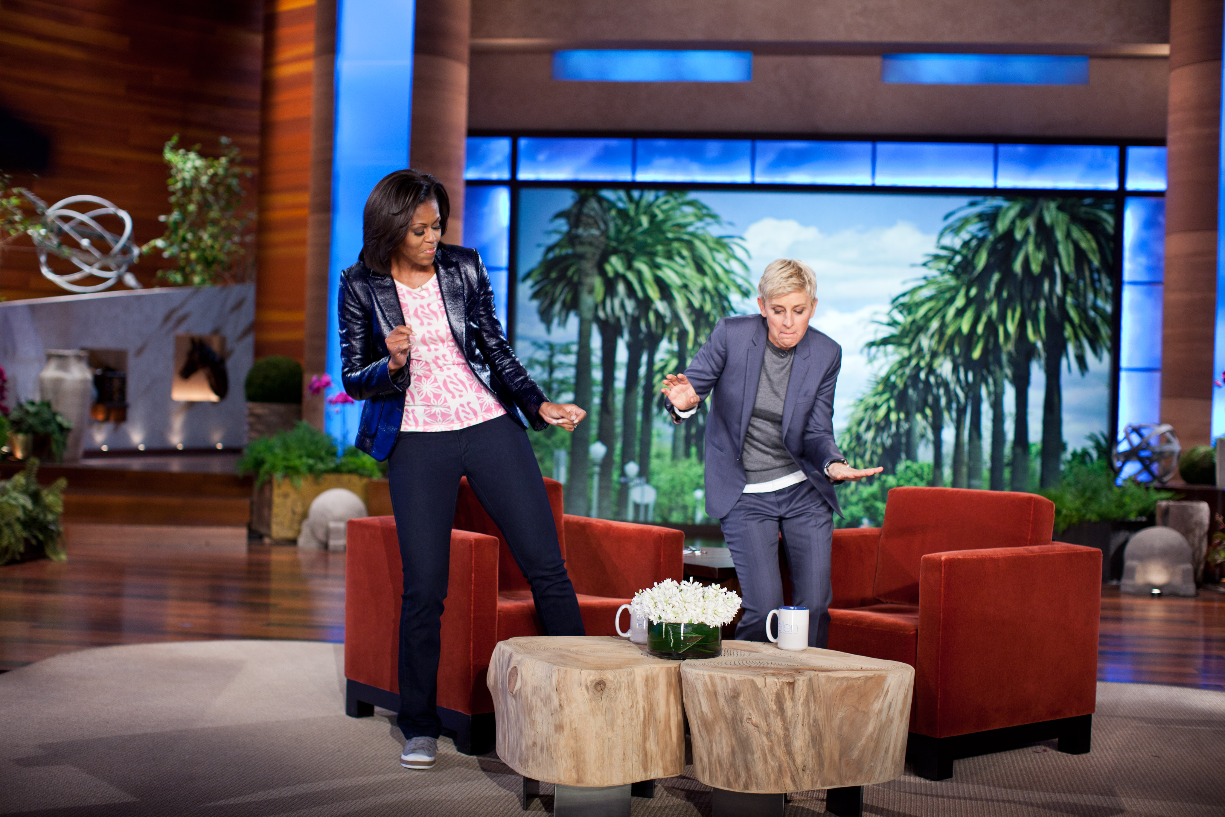 First Lady Michelle Obama and Ellen DeGeneres dance during a taping of “The Ellen DeGeneres Show” marking the second anniversary of the "Let’s Move!" initiative, in Burbank, Calif., Feb. 1, 2012.